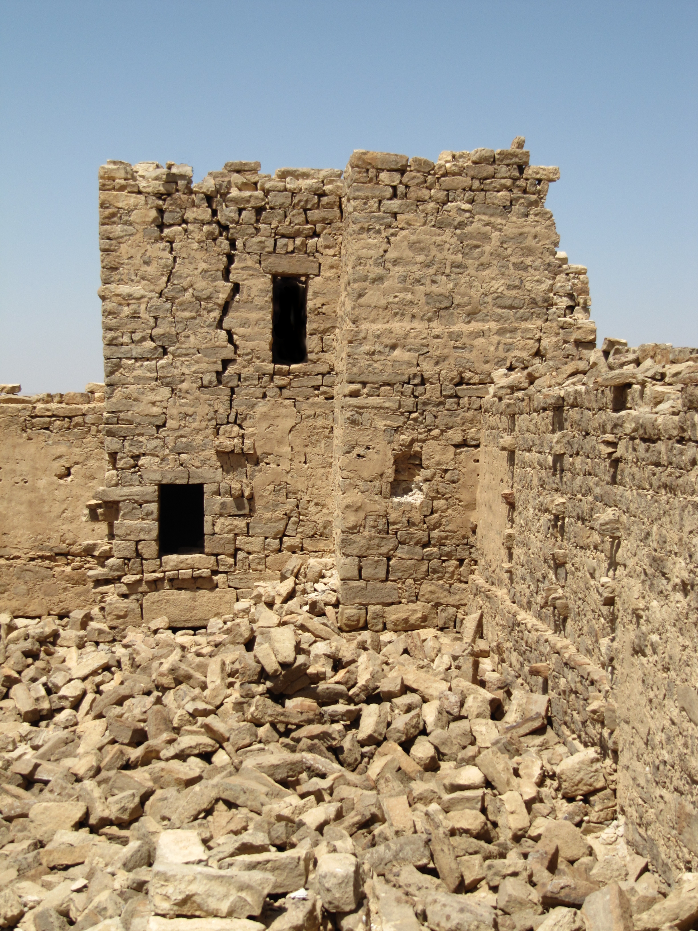 One of the 4 towers of the roman Castellum of Qasr Bshir